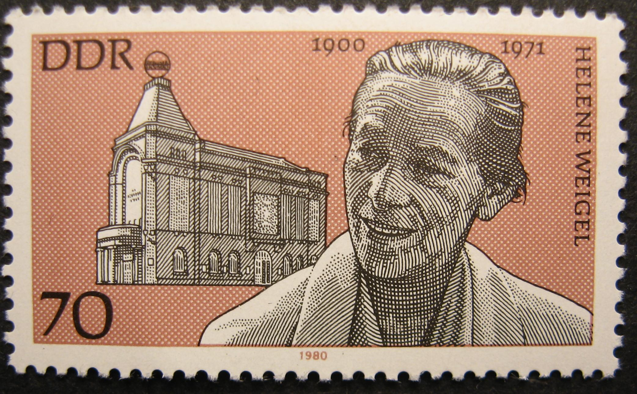 Stamp